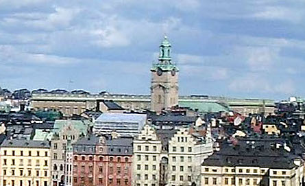 Detail from a panorama showing Stockholma Palace and Storkyrkan]Cathedral viewed from Södermalm.